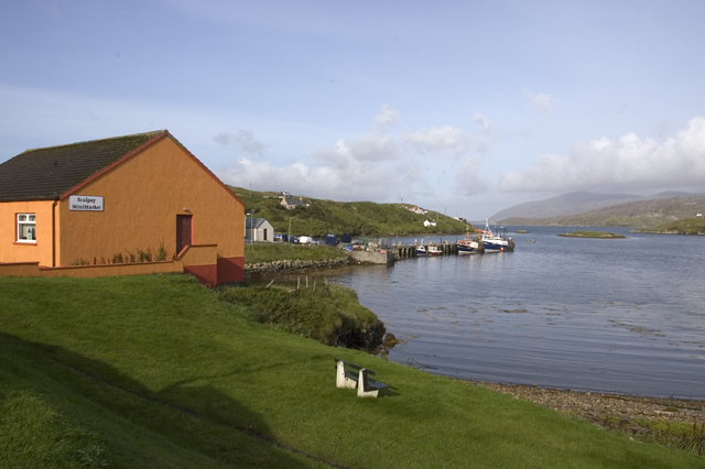 Scalpay Mini Market and North Harbour